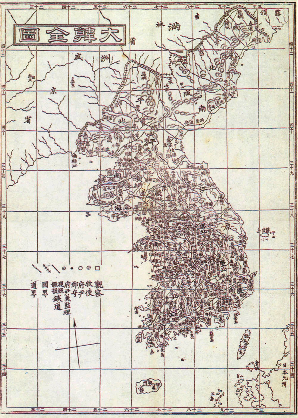 "The Complete Map of Great Han" (Daehan Jeondo), a Korean map from 1899 (Hyeun Chae, Seoul) in the book of "Daehan Jiji"